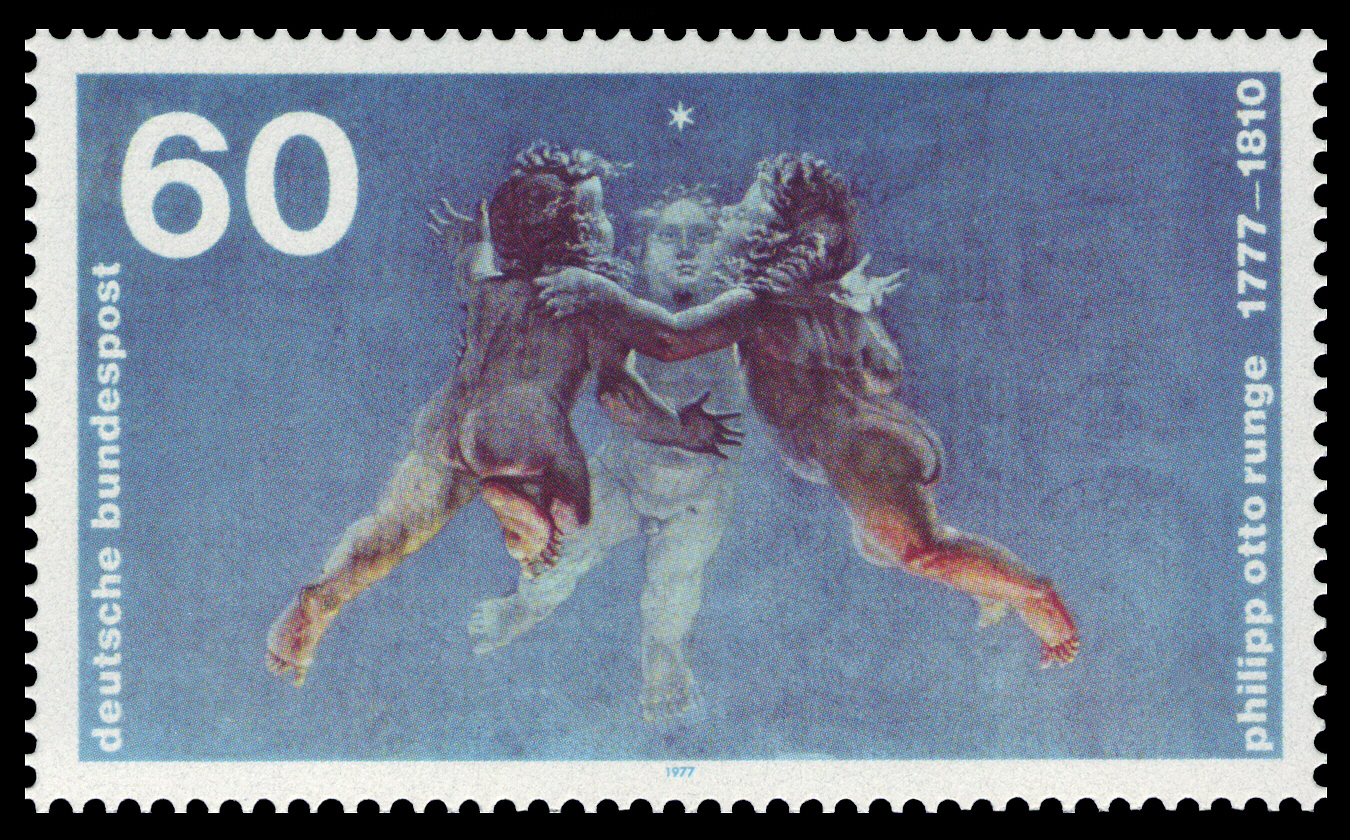 200th day of birth of Philipp Otto Runge Ausgabepreis: 60 Pfennig First Day of Issue / Erstausgabetag: 13. Juli 1977 Michel-Katalog-Nr:940